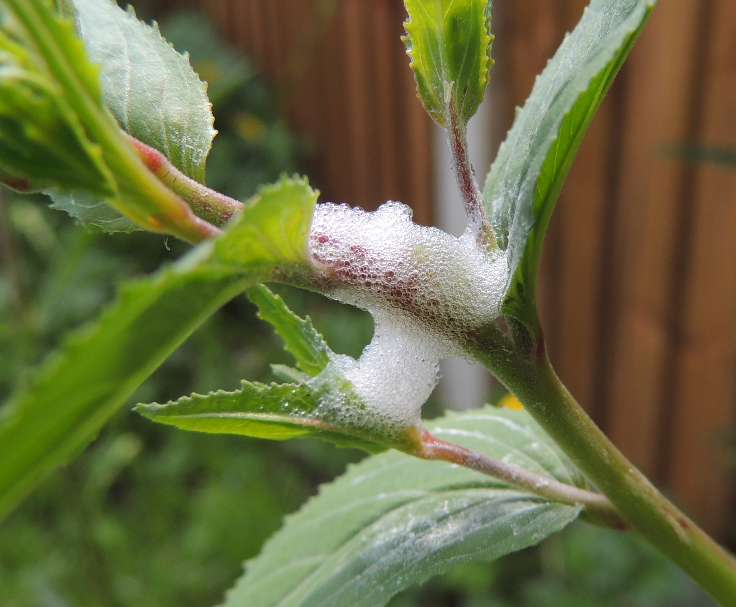 Cuckoo spit, Sandy, Bedfordshire